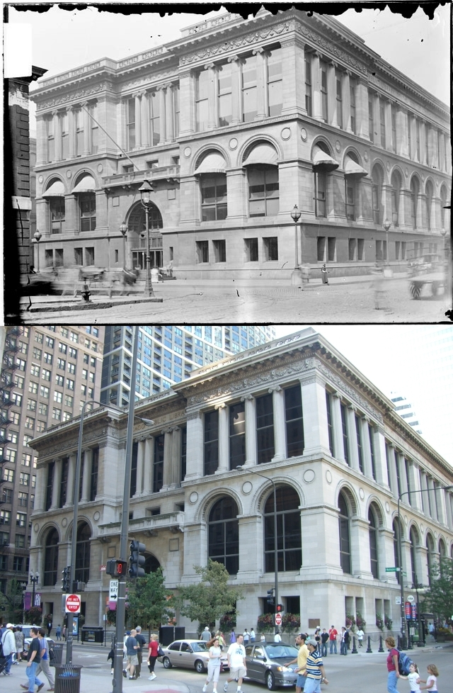 The old Chicago Public Library, now the Chicago Cultural Center. Top photo taken 1903. Chicago Daily News negatives collection, DN-0001239. Courtesy of the Chicago Historical Society.